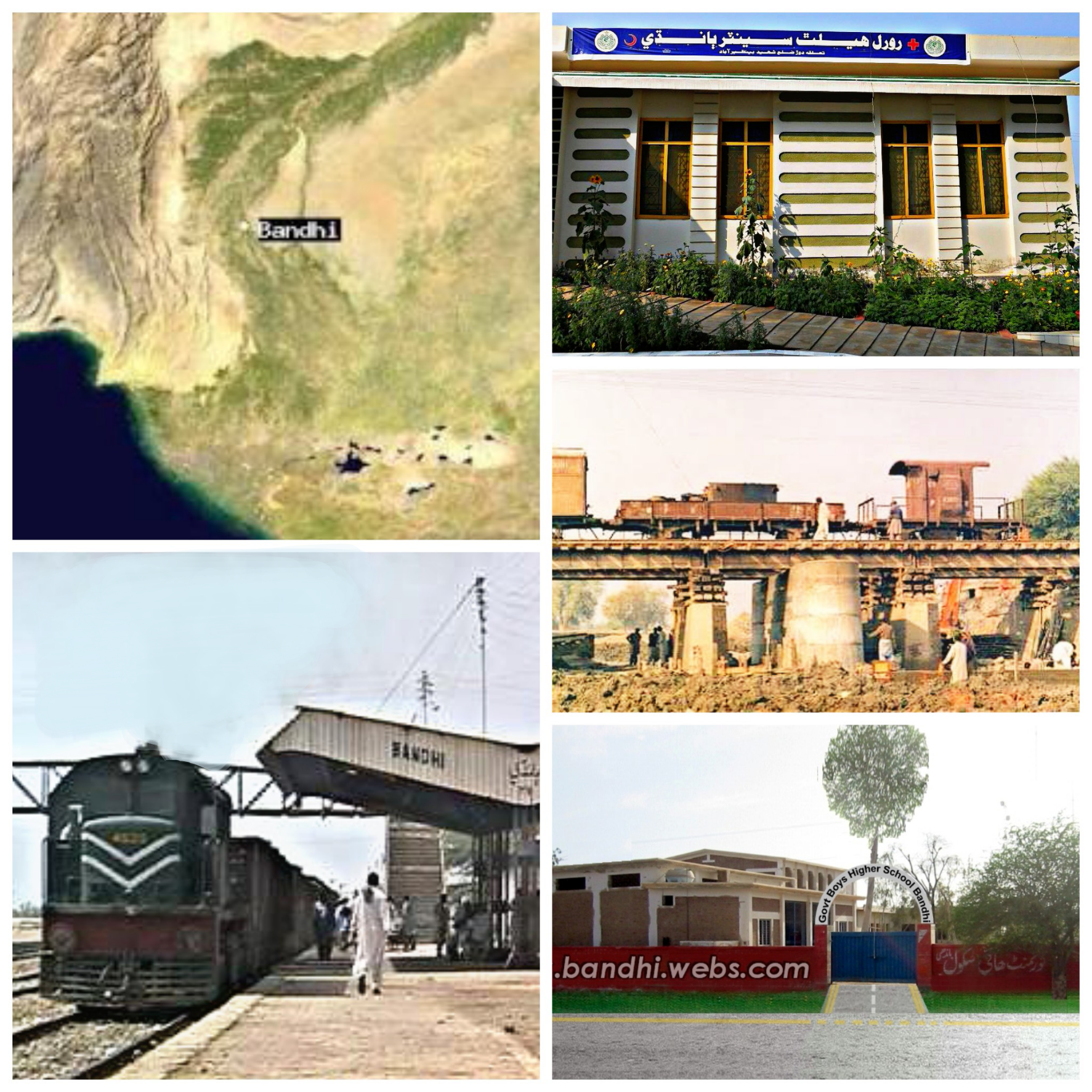 Bandhi town, map, railway station, school, rural health center